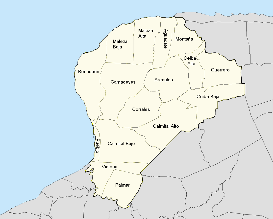 This is a locator map of the barrios of Aguadilla, Puerto Rico